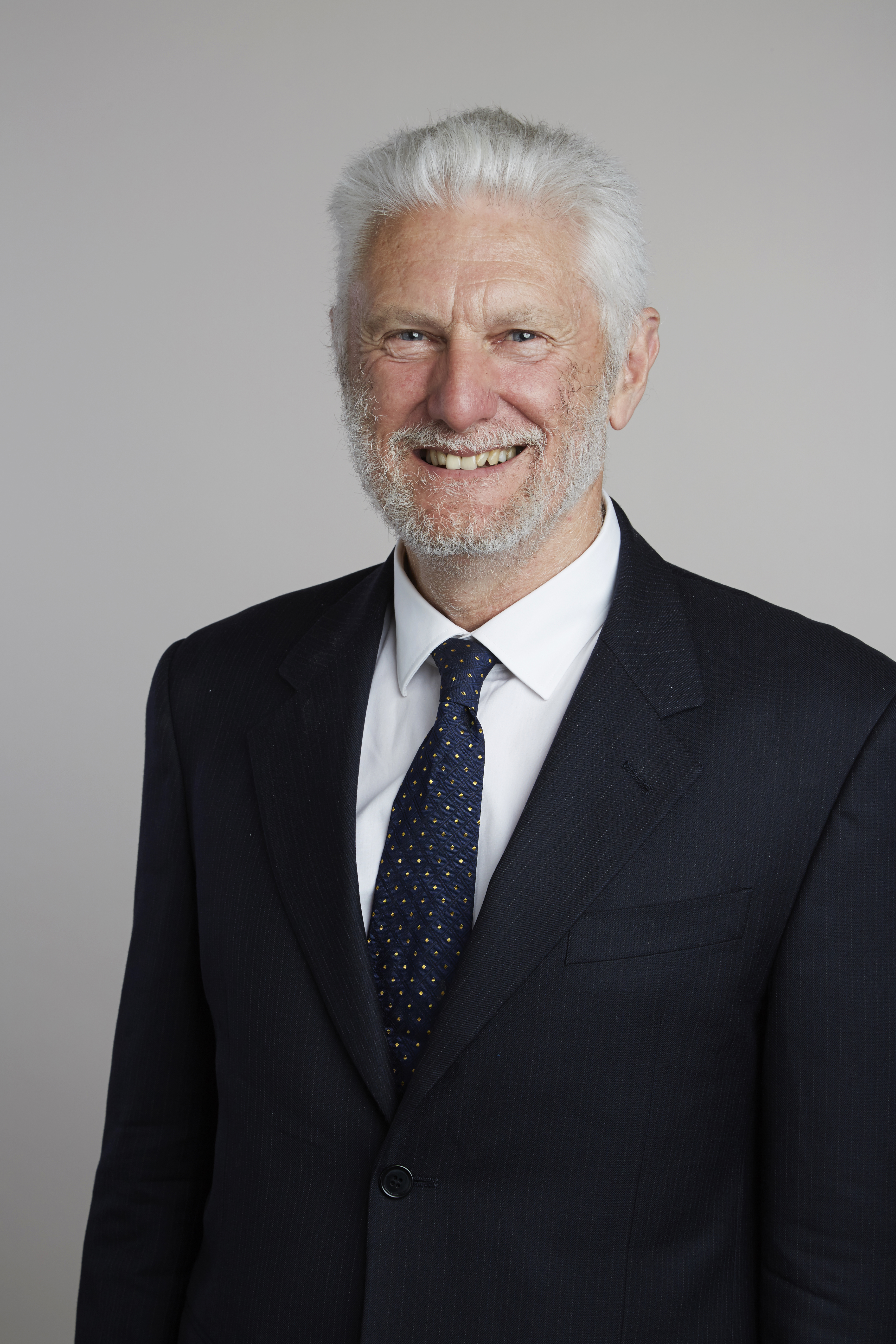 Michael Goddard is distinguished for his research into quantitative genetics and the genetic improvement of livestock, in particular by incorporation of molecular genetic data. He co-proposed and developed 'genomic selection' in which dense molecular markers are fitted to quantitative data by utilising linkage disequilibrium with QTL, thereby enabling more accurate selection decisions, including among animals without phenotypic records. Within a decade, it is being used world wide in animal improvement programmes and has potential in plant breeding and prediction of risk of genetic disease in humans. Goddard has made other major contributions to understanding the genetic basis of quantitative genetic variation, showing that common SNPs can collectively account for much of the heritability, and to inferences on population history. Attribution: The Royal Society